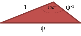 This triangle shows how a triangle with lengths of the supergolden ratio, its inverse, and one has an angle of 120 degrees